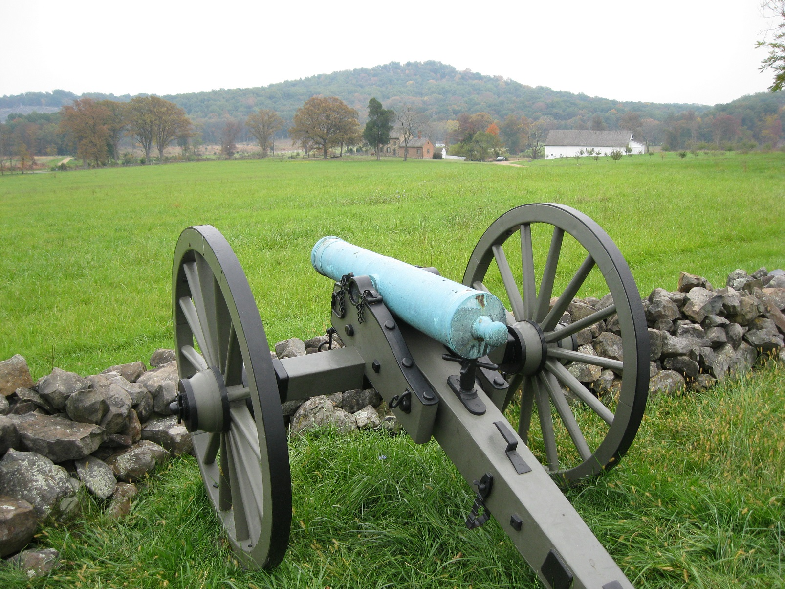 Photo shows a bronze smoothbore M1841 12-pounder howitzer at Gettysburg National Battlefield. It is located on South Confederate Avenue near its intersection with Business US 15 in a battery position identified as the North Carolina Branch Artillery. View is toward the east. Round Top is at center and Little Round Top is at left edge.